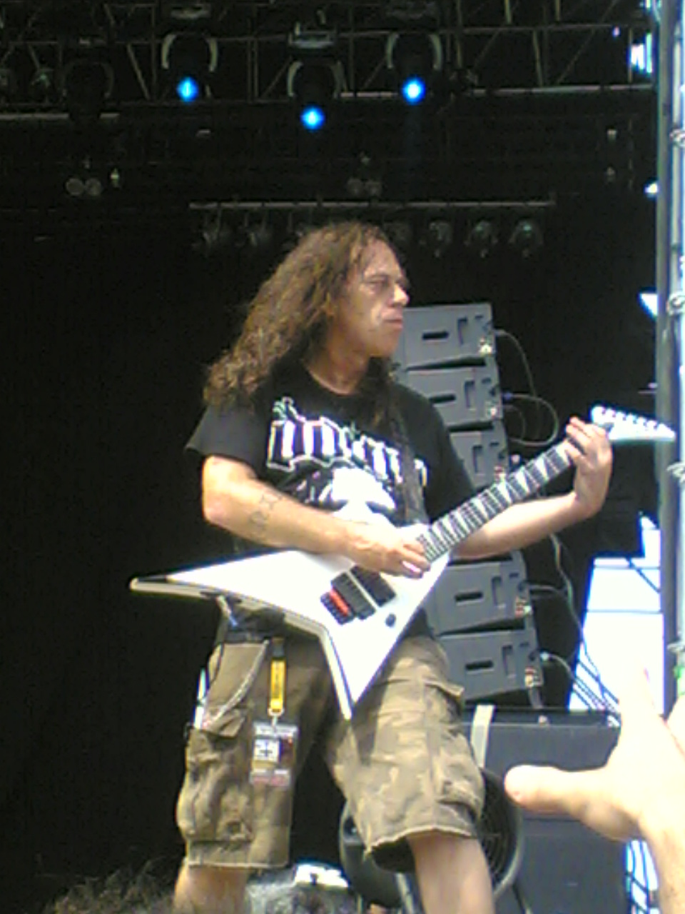 Ralph Santolla at the Gods of Metal 2008, Bologna (Italy)